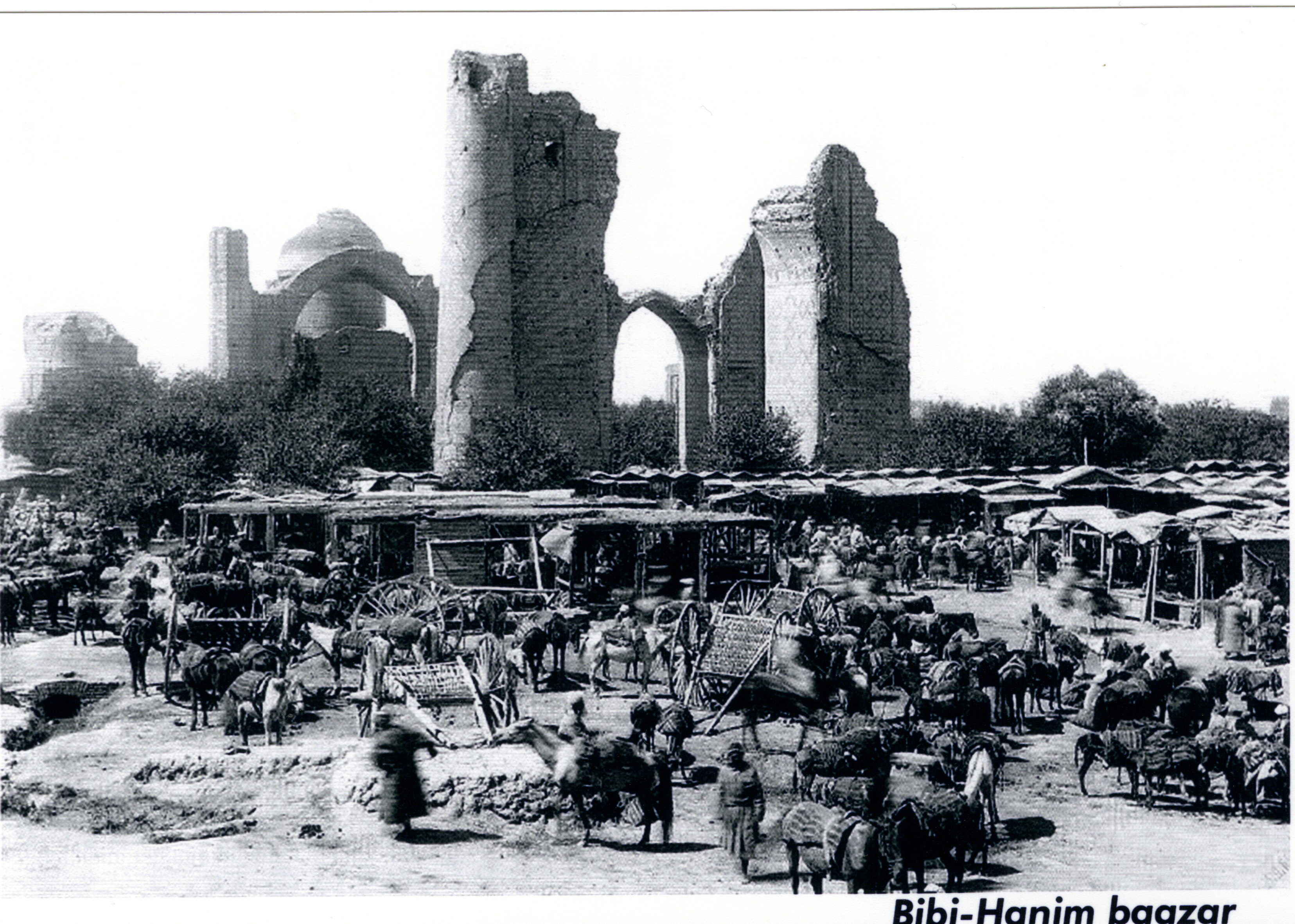 Bibi-Hanim bazaar